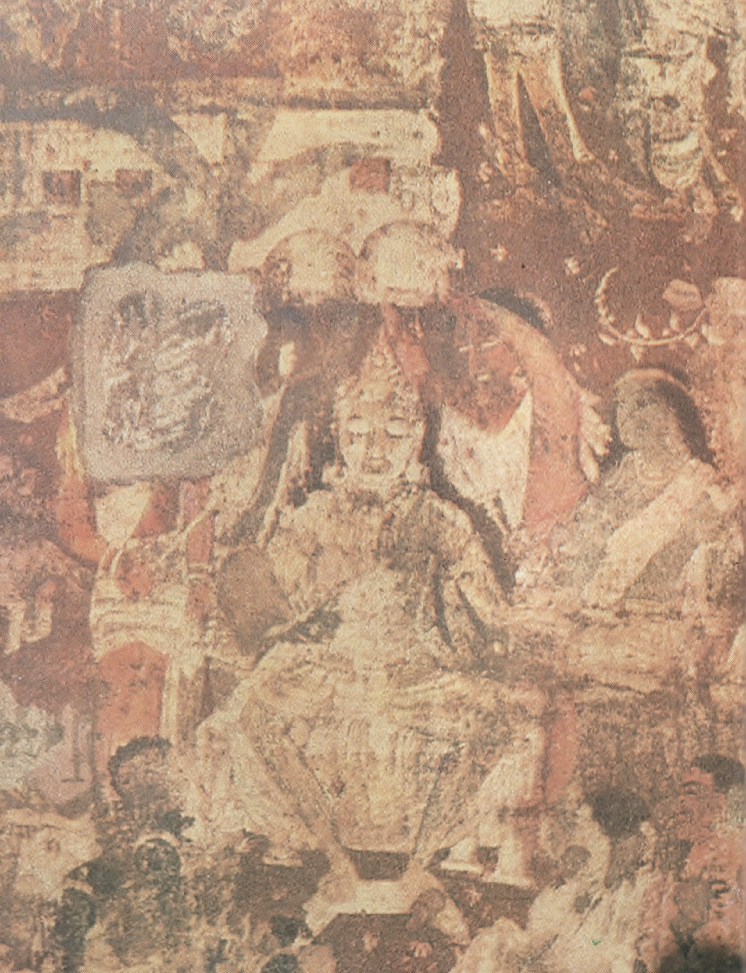 The consecration (coronation) of King Sinhala-Prince Vijaya (Detail from the Ajanta Mural of Cave No 17)